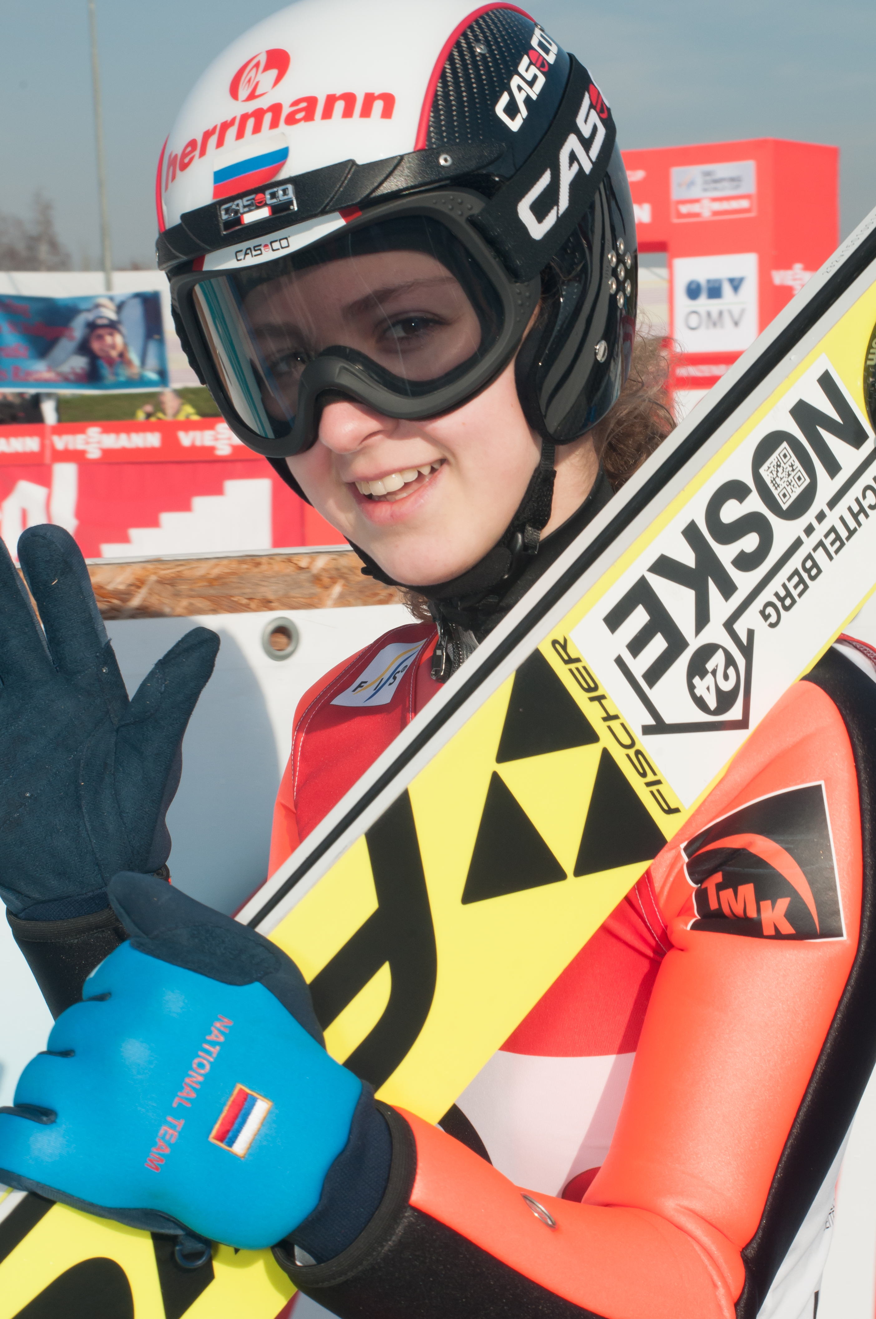 FIS Ski Jumping World Cup Ladies Hinzenbach 2016-02-07